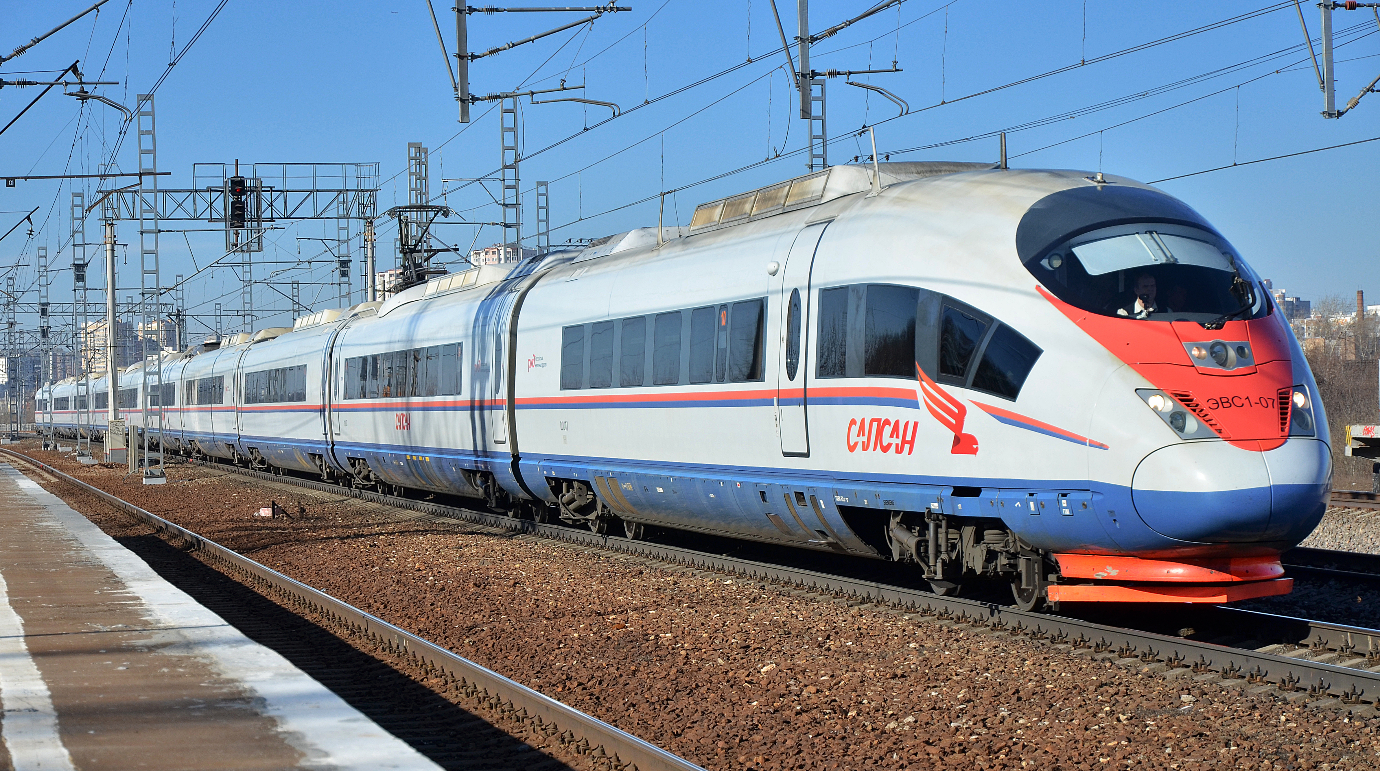 The high-speed train EVS1-07 «Sapsan» on Moscow — Saint Petersburg railway line